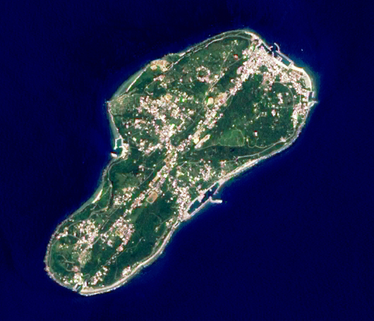 The Advanced Land Imager (ALI) on NASA’s Earth Observing-1 satellite captured this image of Lamay Island offshore southwestern Taiwan. This 10-meter resolution false-colored image shows the old airstrip has been occupied by the buildings on the island.